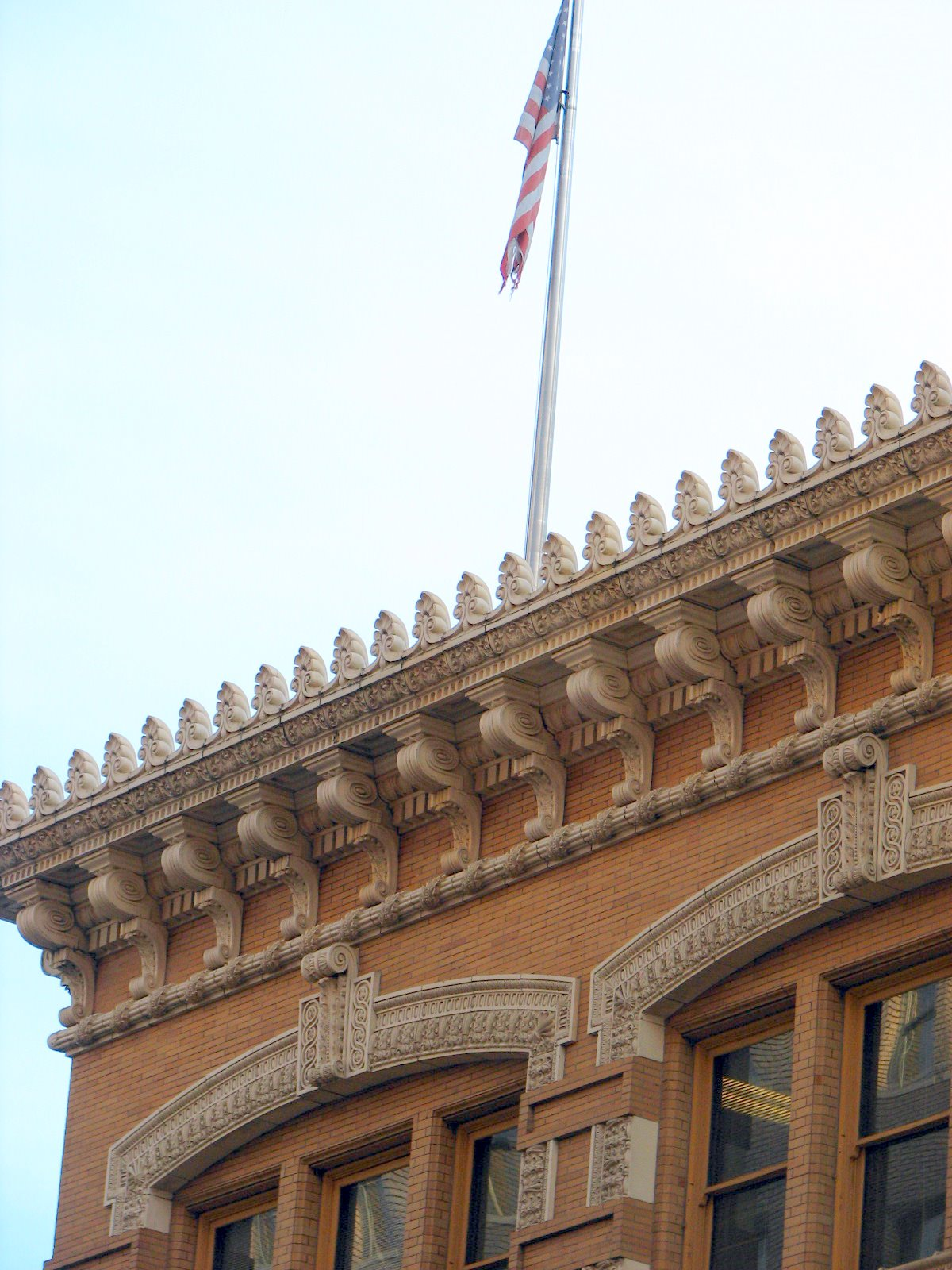 The historic Postal Building (built 1900), located at 502-516 Southwest 3rd Avenue in Portland, Oregon, United States, is listed on the US National Register of Historic Places (NRHP).